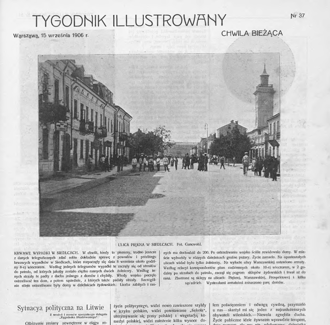 First page of the September 15, 1906 issue of the Warsaw based Tygodnik Ilustrowany weekly. The headline text briefly summarizes the events of the Siedlce pogrom. The English translation of the text (ilustrated with a picture taken earlier on Piekna Street in Siedlce by Adolf Gancwol): BLOODY INCIDENTS IN SIEDLCE. As we write this, it is still difficult to determine from the received telegrams the cause and the course of the bloody incidents in Siedlce which began on September 8th about 8 o’clock in the evening. According to some telegrams the incidents started after shots were fired at soldiers on patrol which left two of them heavily wounded. Other telegrams claim the shots were fired from the roof of one of the houses but missed. Then, the army started shooting at that house and later on – also at surrounding houses from which shots were also fired. The houses in the Jewish neighborhoods were particularly heavily shot at. The number of deaths and injuries has allegedly reached 200. After the shooting, the army has searched the houses very strictly. Dangerous fires erupted in various parts of the city. City life froze. Only soldiers were seen on the deserted streets. Cannons were set at the outlet of Warszawska Street. According to the accounts of journalists at about 10 o’clock in the evening, two hours after first shots have been fired, a pogrom of the jewish stores began and lasted until morning. The shops on the Piękna, Warszawska and Prospektowa as well as several adjacent streets were destroyed. Cannon fire has destroyed a few houses. .